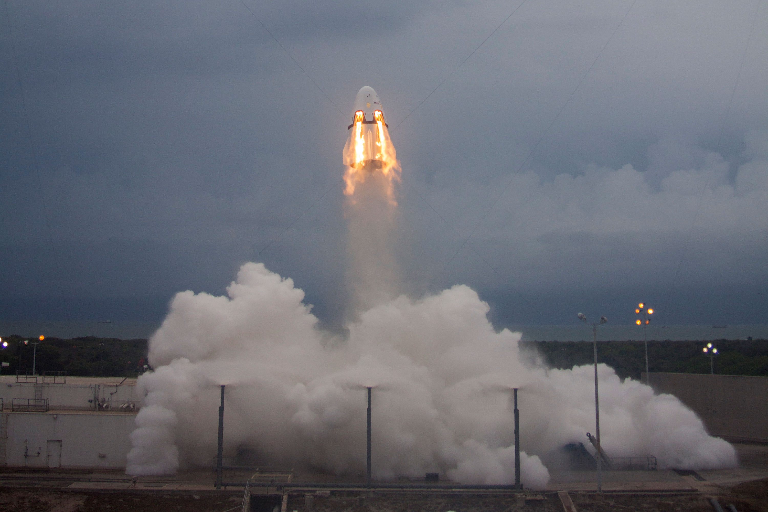 On May 6, 2015, SpaceX completed the first key flight test of its Crew Dragon spacecraft, a vehicle designed to carry astronauts to and from space. The successful Pad Abort Test was the first flight test of SpaceX's revolutionary launch abort system, and the data captured here will be critical in preparing Crew Dragon for its first human missions in 2017.